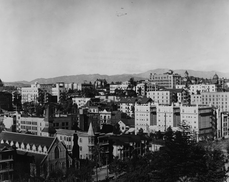 Photograph of downtown Los Angeles in 1900, looking northeast from Pershing Square at the Bunker Hill neighborhood.